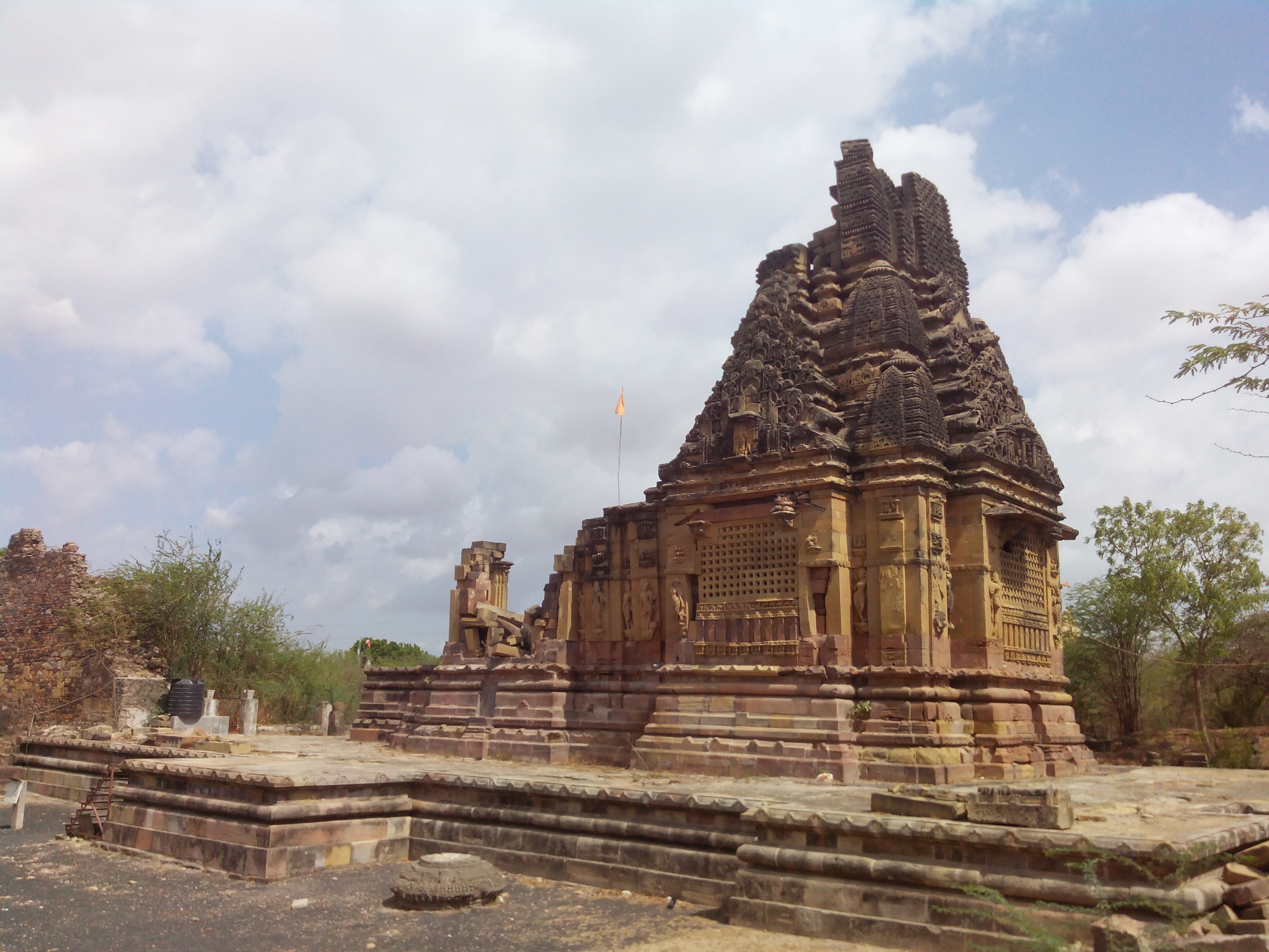 Ruined Shiva Temple built by Lakho Phulani in probably 10th century at Kera village of Kutch district, Gujarat, India The temple damaged in 1819 Rann of Kutch earthquake.